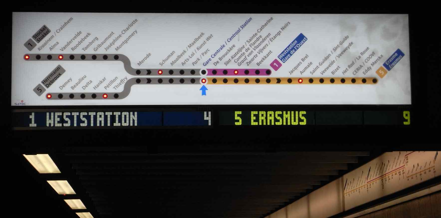 Route sign of metro lines 1 and 5 at Brussels' Centraal Station (Dutch) or Gare Centrale (French)